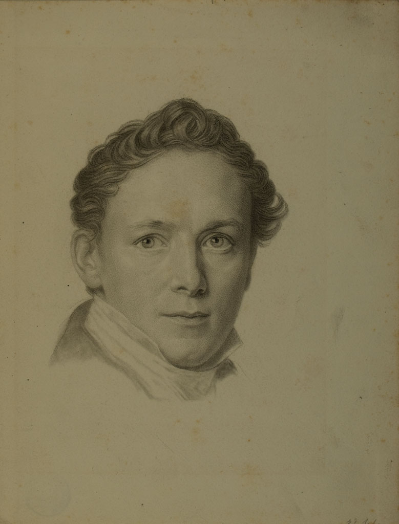 Original drawing ca. 1850